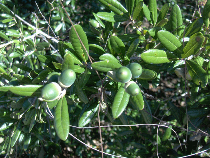 Sand Live Oak